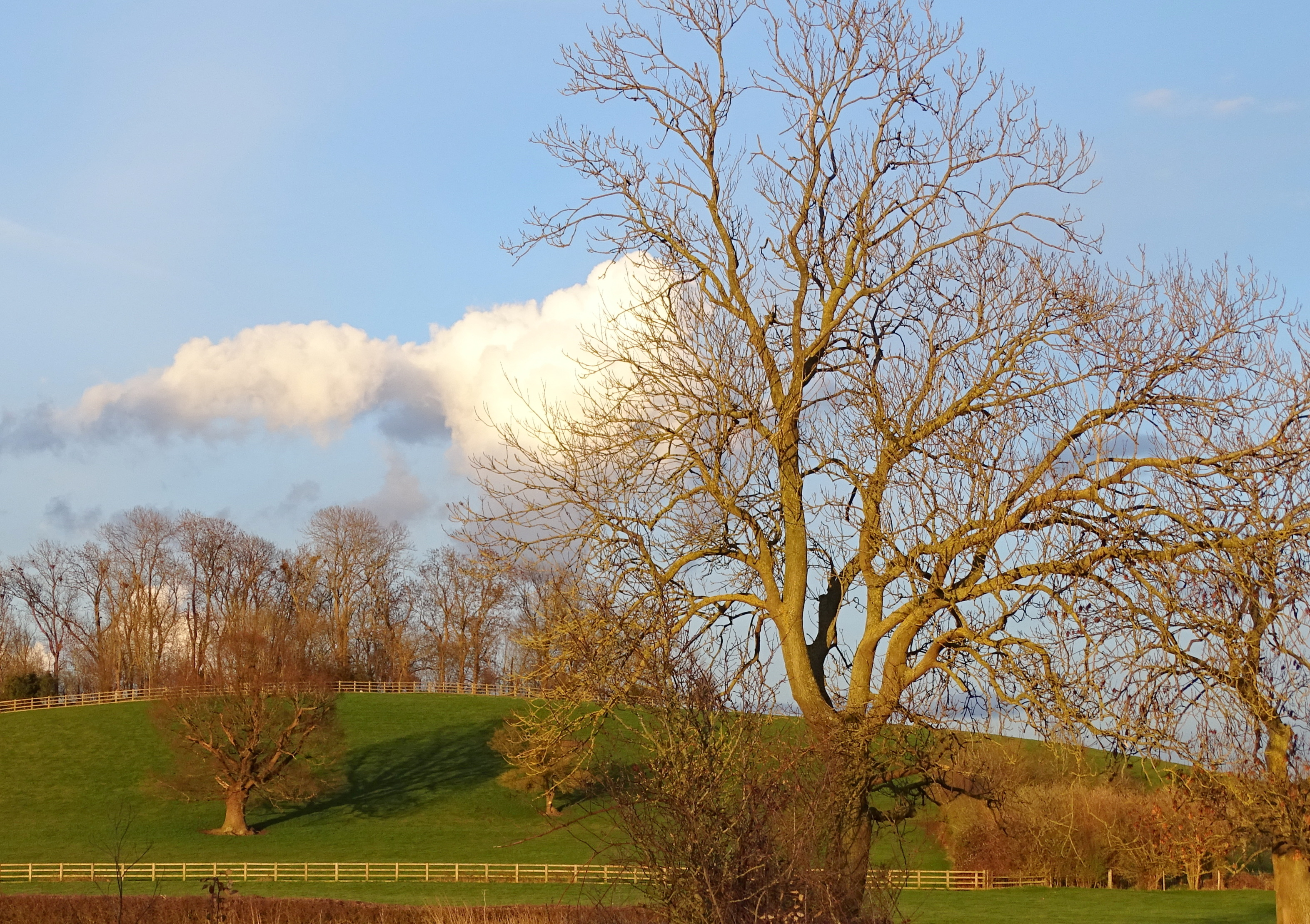 A scene in The Barrow